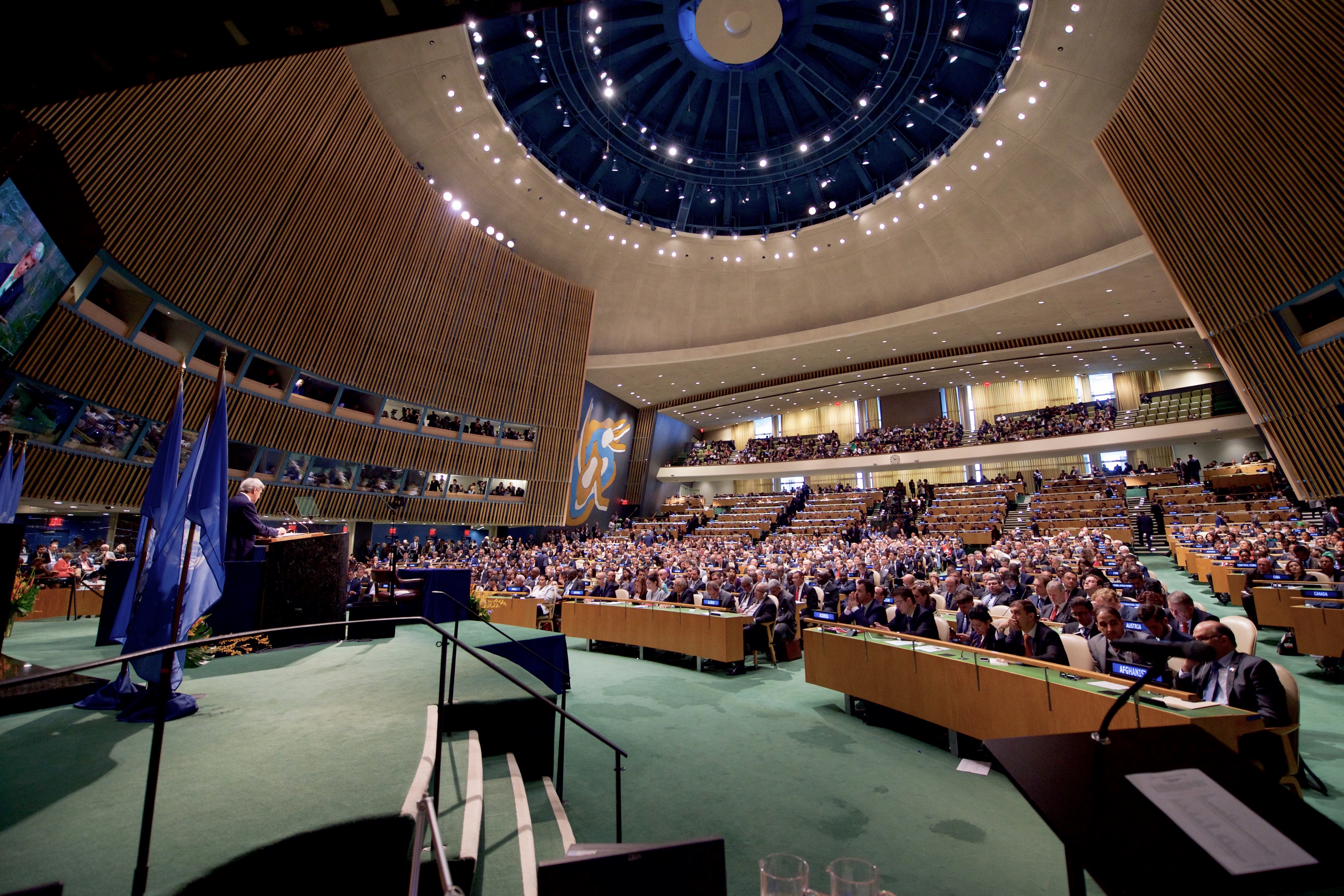 U.S. Secretary of State John Kerry addresses delegates before he signed the COP21 Climate Change Agreement on Earth Day, April 22, 2016, at the United Nations General Assembly Hall in New York, N.Y. [State Department photo/ Public Domain]